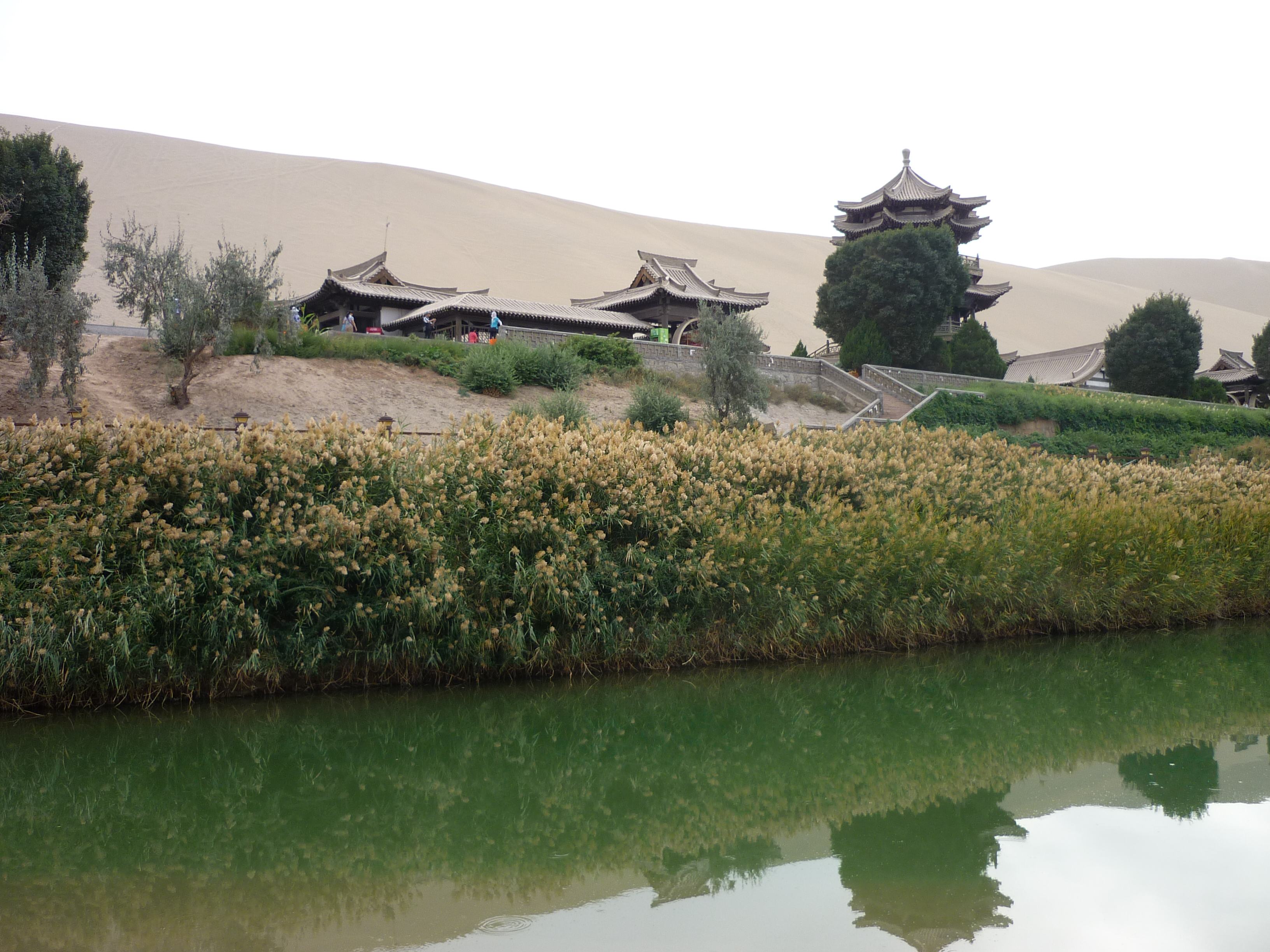 Dūnhuáng (敦煌;炖煌; in ancient times meaning 'Blazing Beacon') is a county-level city in northwestern Gansu province, Western China. It was a major stop on the ancient Silk Road.